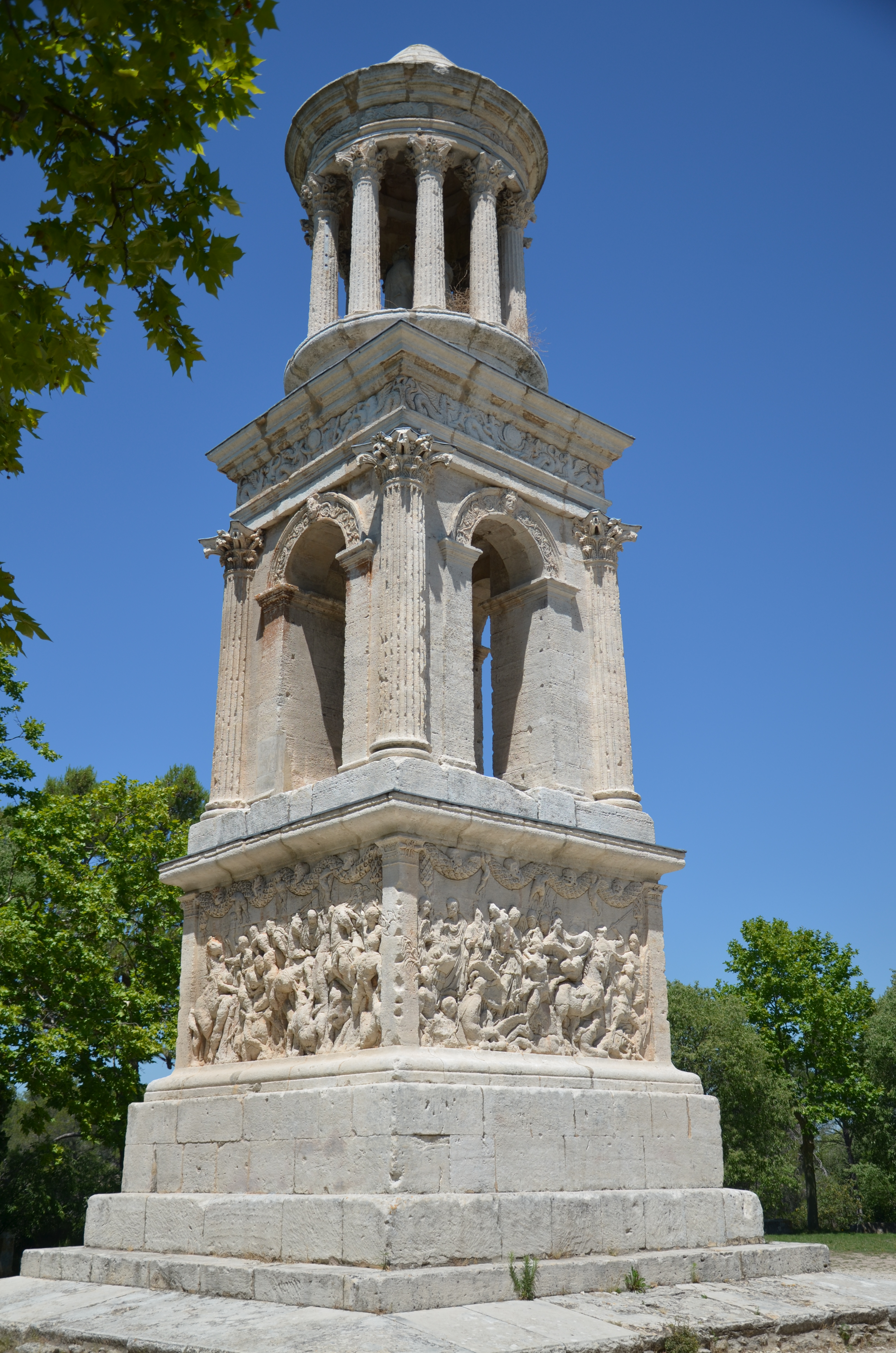 The Mausoleum of the Julii, located across the Via Domitia, to the north of, and just outside the city entrance, dates to about 40 BCE, and is one of the best preserved mausoleums of the Roman era. A dedication is carved on the architrave of the building facing the old Roman road, which reads: SEX · M · L · IVLIEI · C · F · PARENTIBVS · SVEIS Sextius, Marcus and Lucius Julius, sons of Gaius, to their forebears It is believed that the mausoleum was the tomb of the mother and father of the three Julii brothers, and that the father, for military or civil service, received Roman citizenship and the privilege of bearing the name of the Julii, one of the most distinguished families in Rome.